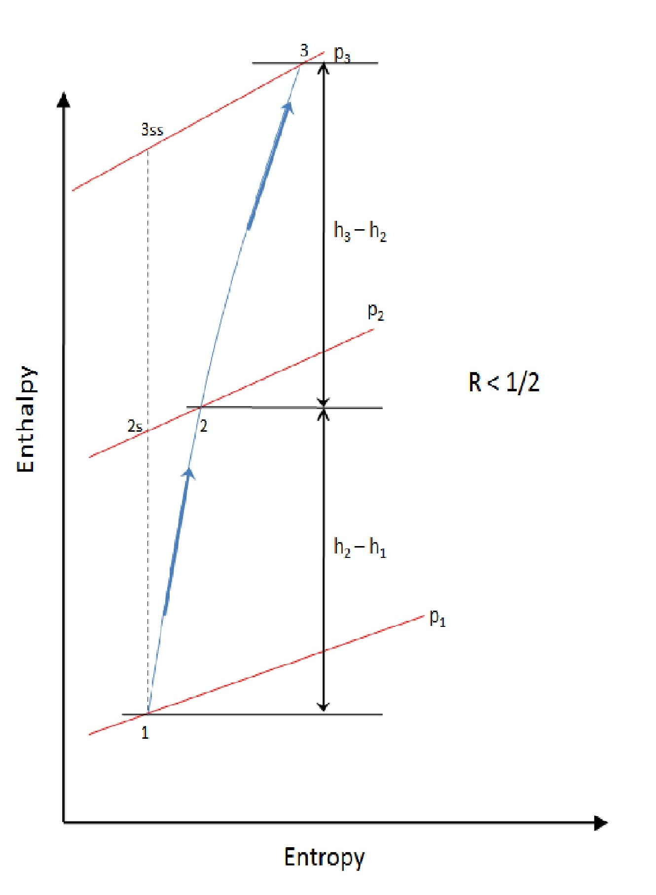 This figure shows the enthalpy vs entropy diagram for the case where degree of reaction is less than half in a compressor